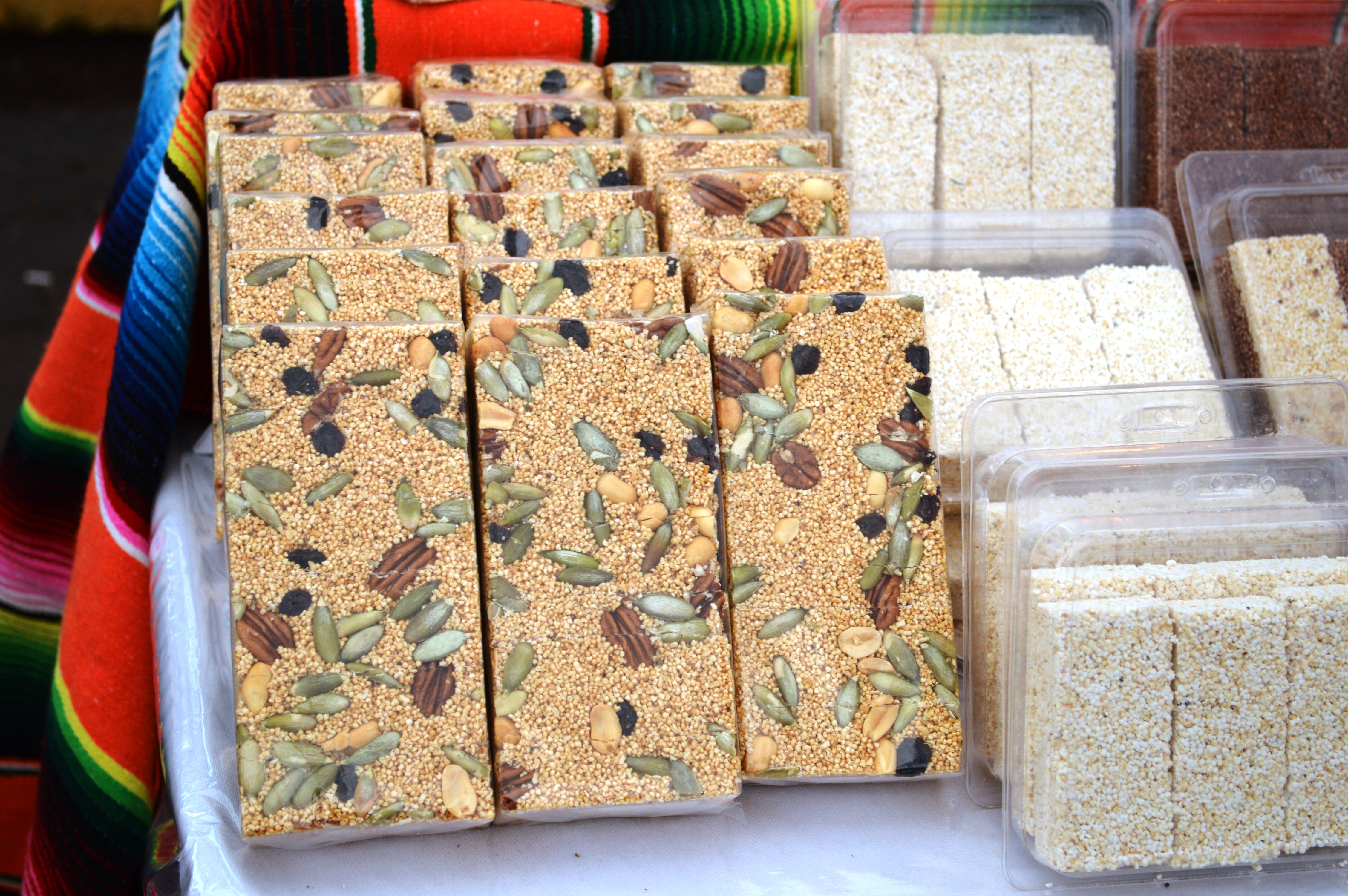 Alegrias are bars of amaranth seed and honey, often topped with nuts and/or dried fruit.